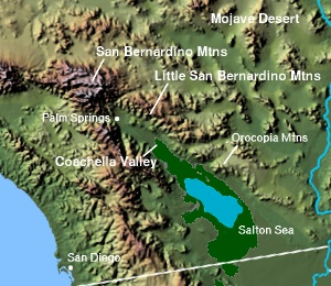 Little San Bernardino Mountains © 2004 Matthew Trump